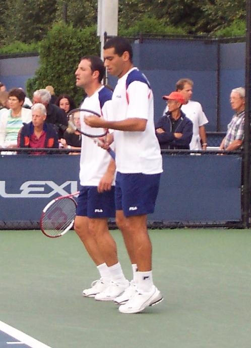 Israeli Duo Andy Ram & Jonathan Erlich At The 2006 U.S. Open